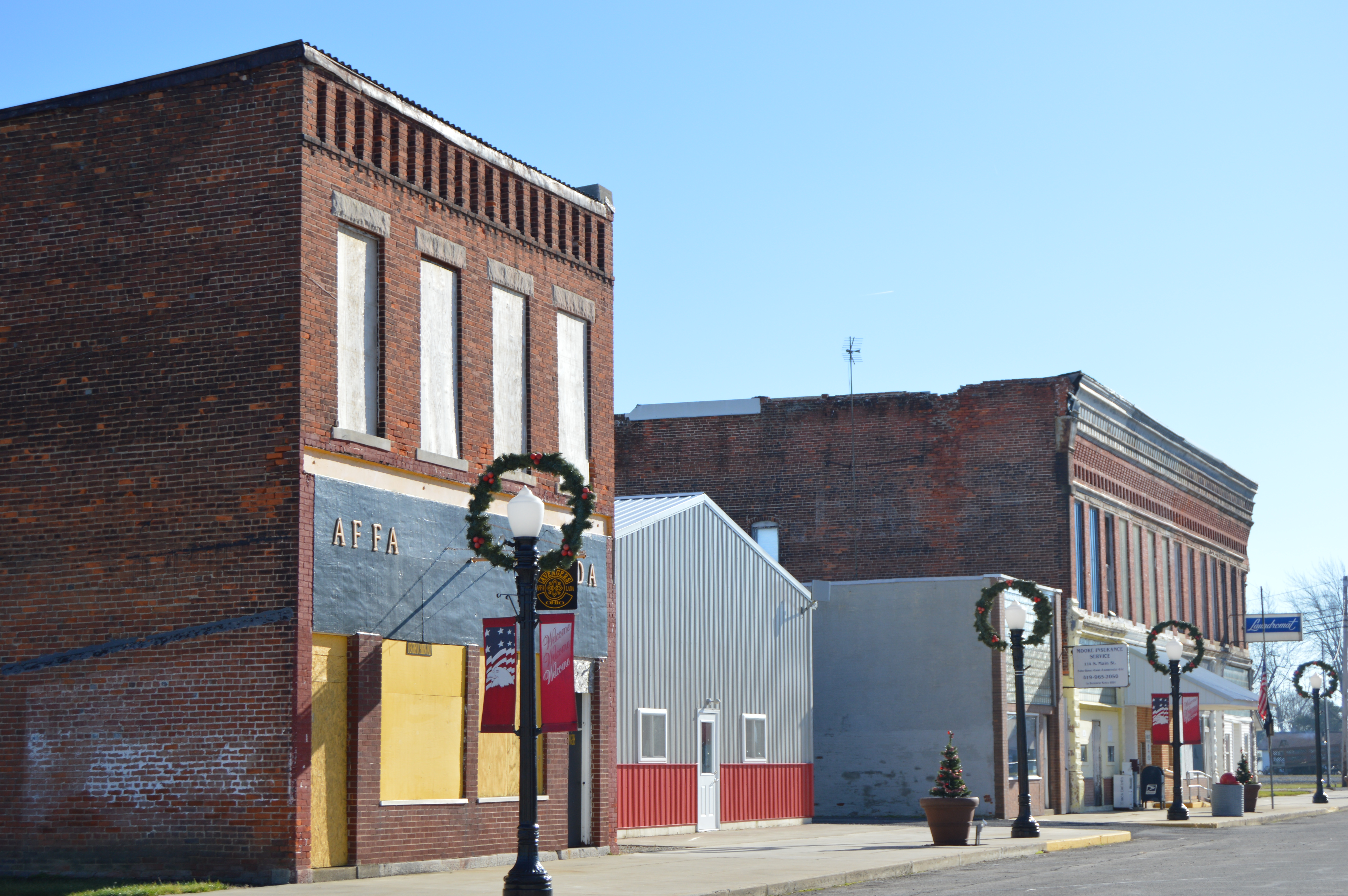 Buildings on the western side of the first block of S. Main Street in Ohio City, Ohio, United States.